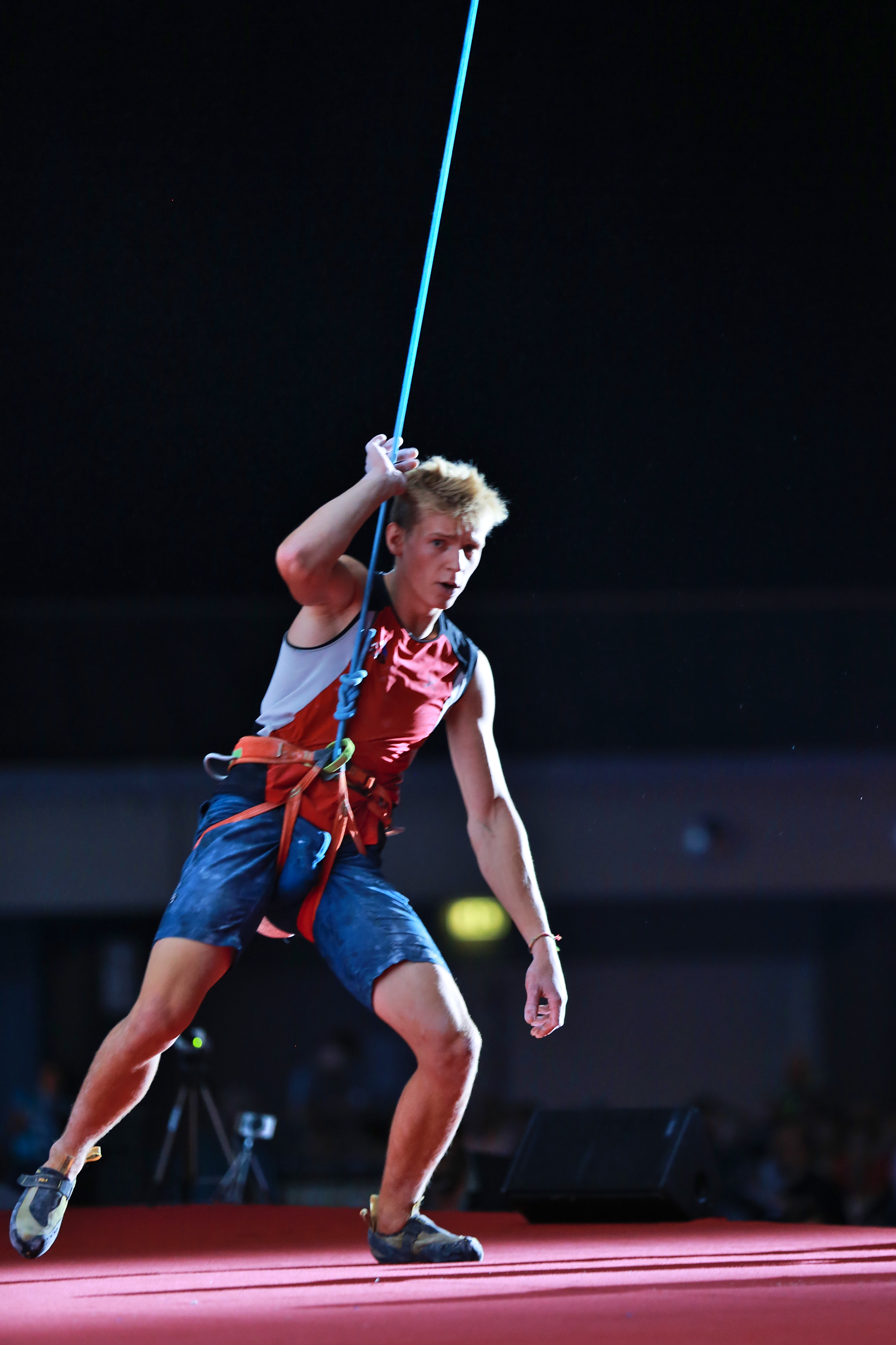 IFSC Climbing World Championships Innsbruck 2018 Final MAN lead 104 KONECNY Jakub CZE